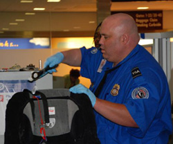 A TSA officer screens a piece of luggage.